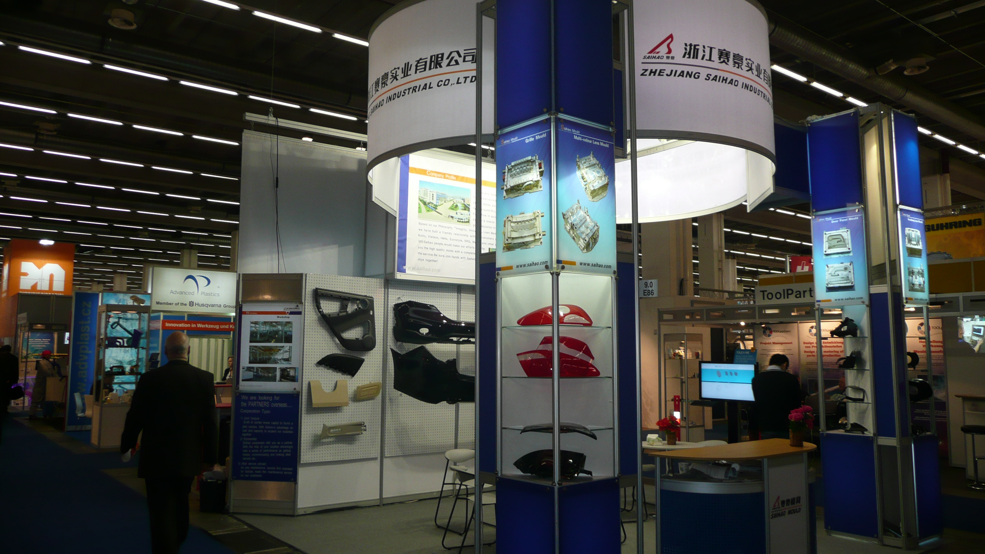 World Fair EuroMold 2009 in Frankfurt